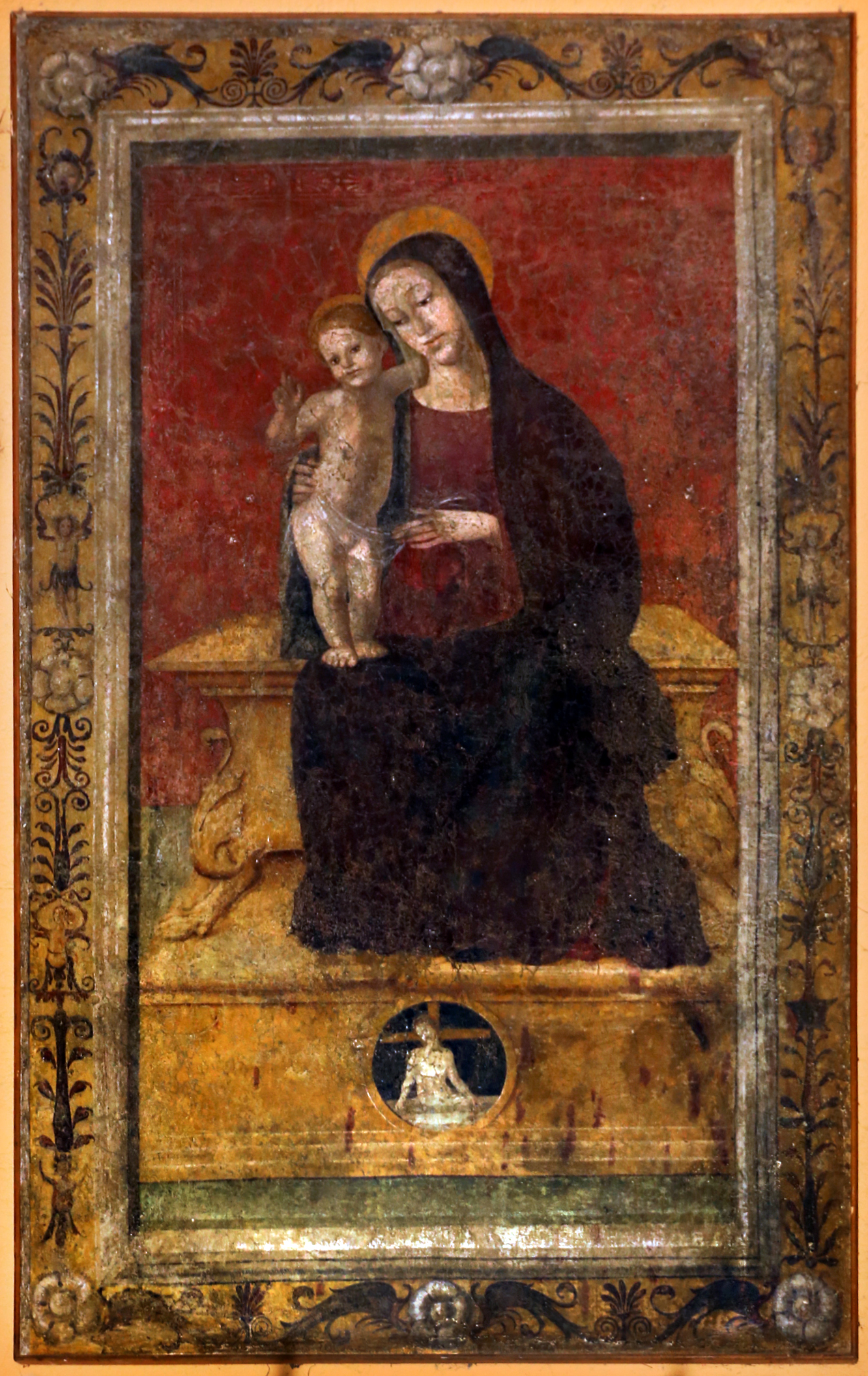 Santa Maria Maggiore (Cerveteri)